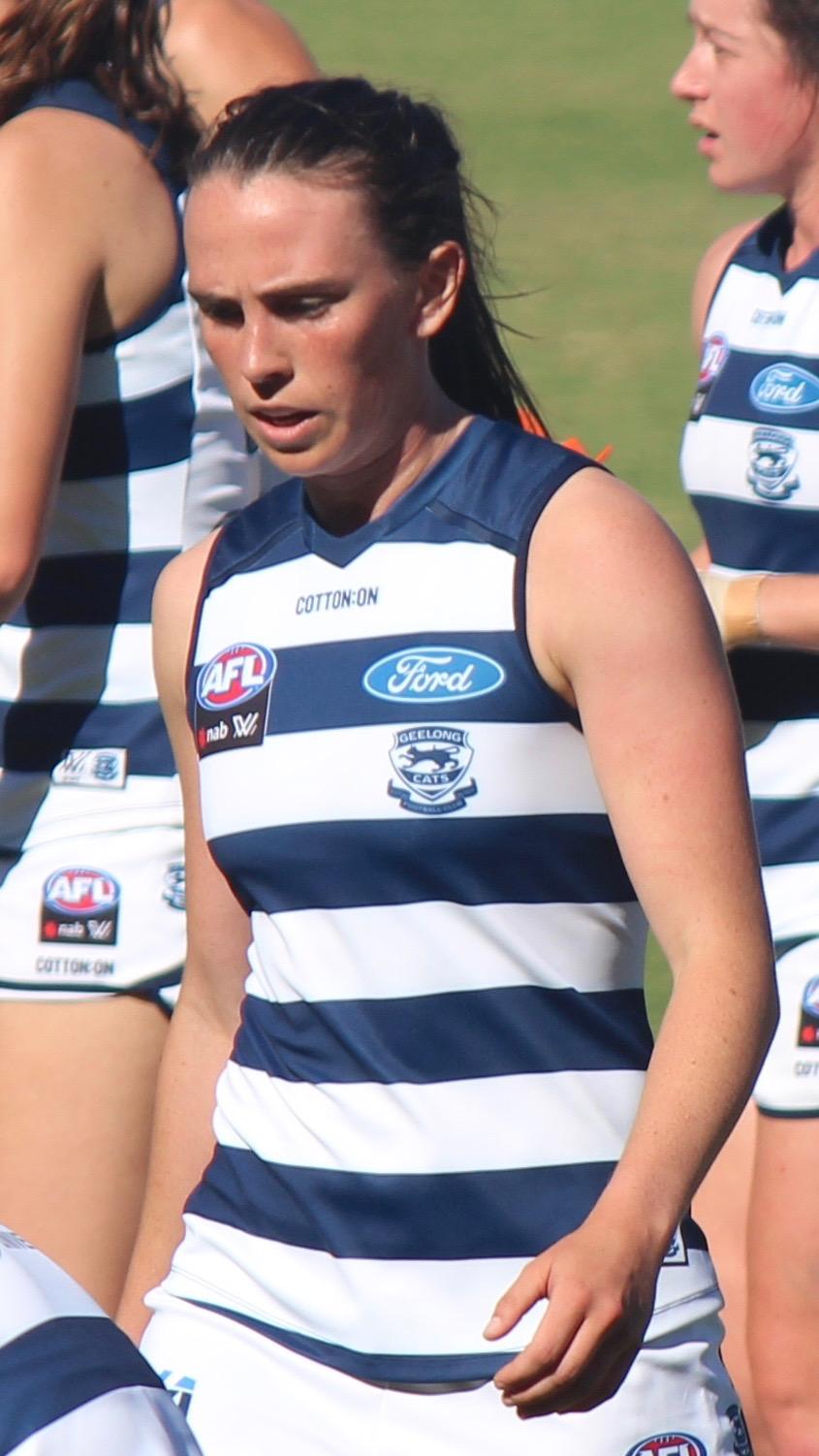 Cassie Blakeway with Geelong during a match against Carlton at Kardinia Park in round 4 of the 2019 AFL Women's season.